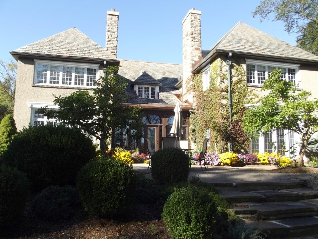 This is an image of the house known as Gibbons Lodge, bequeathed to the University of Western Ontario by Helen Gibbons.